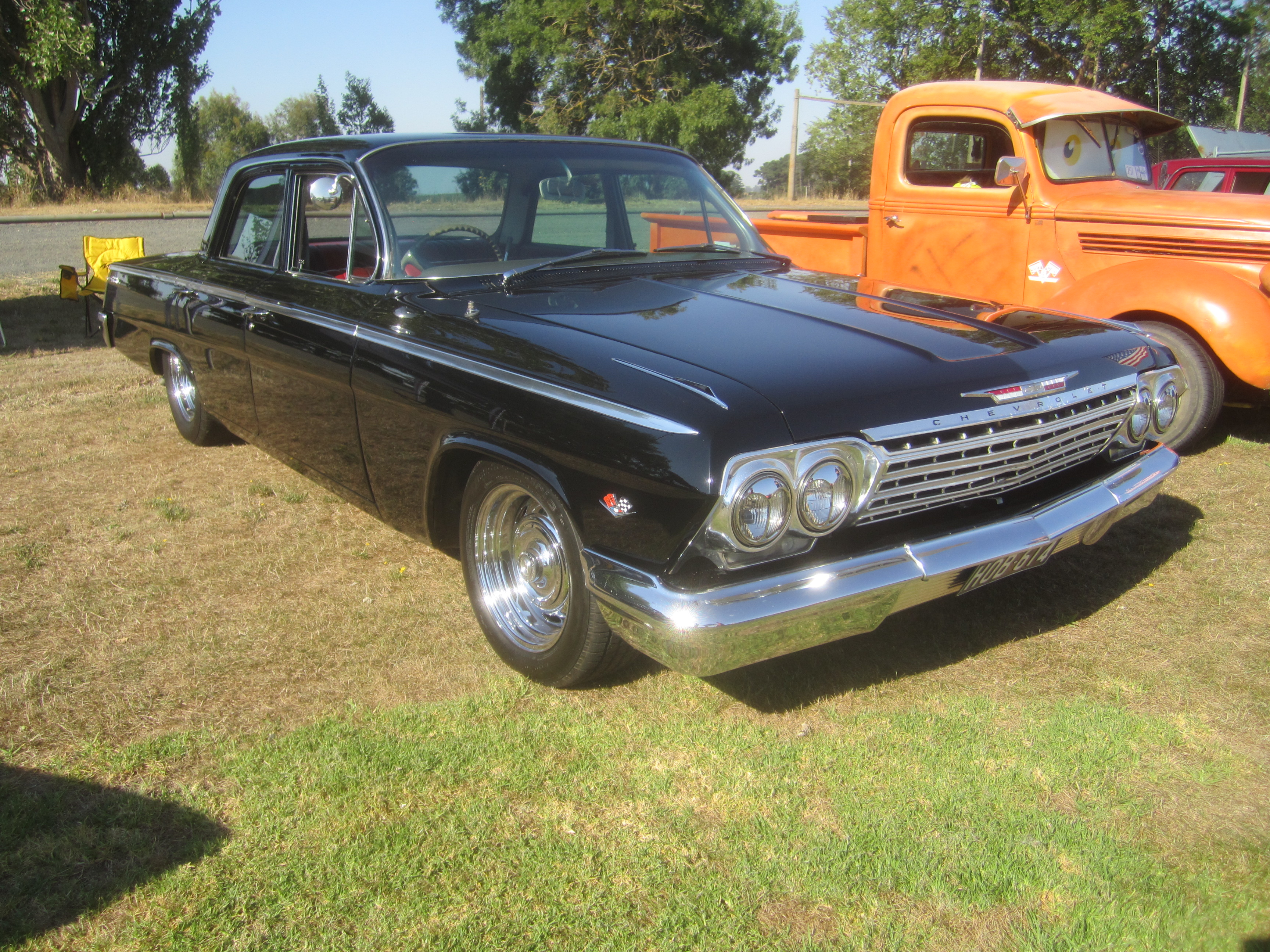 All sheetmetal, except the doors, was changed again in 1962, a more conservative looking car. The Sedans and 2 door Sport Coupe got a convertible roof style roofline whereas the 2 door Hardtop Coupe still had the bubble back Roofline. Base model was still the Biscayne, mid spec: Bel Air and top the Impala, again with white band along the rear fender and triple round tail lights (double on Biscayne and Bel Air). Super Sport option. Chevrolets were also produced in Australia from 1926-68, built by General Motors Holden using modified American bodies. In 1962, only the 4 door Chevrolet sedan was sold there, along side the 4 door Pontiac Laurentian Sedan 1962 Australian Chev Belair engine; 283 V8